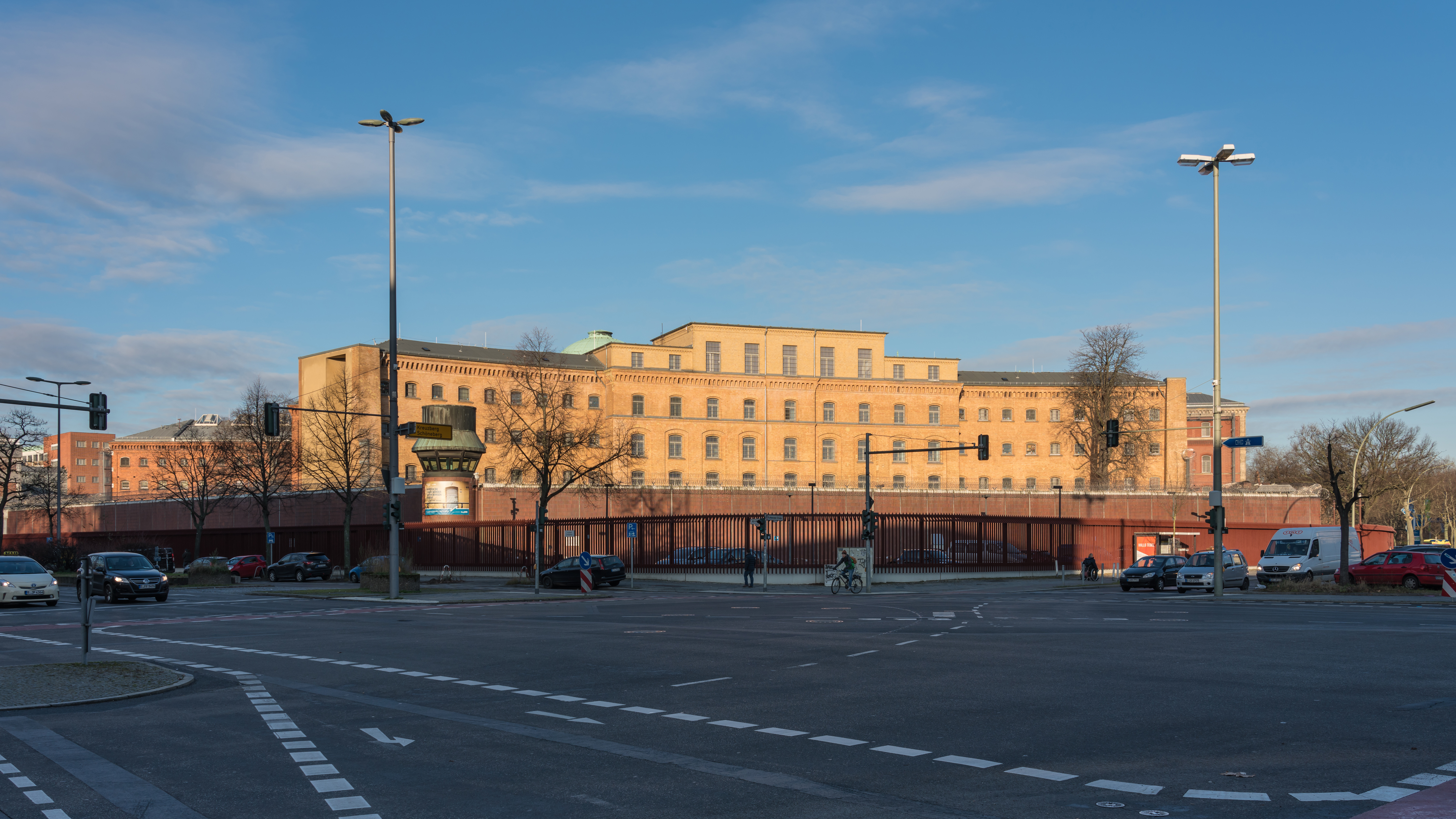 Moabit Prison, Berlin (Germany)